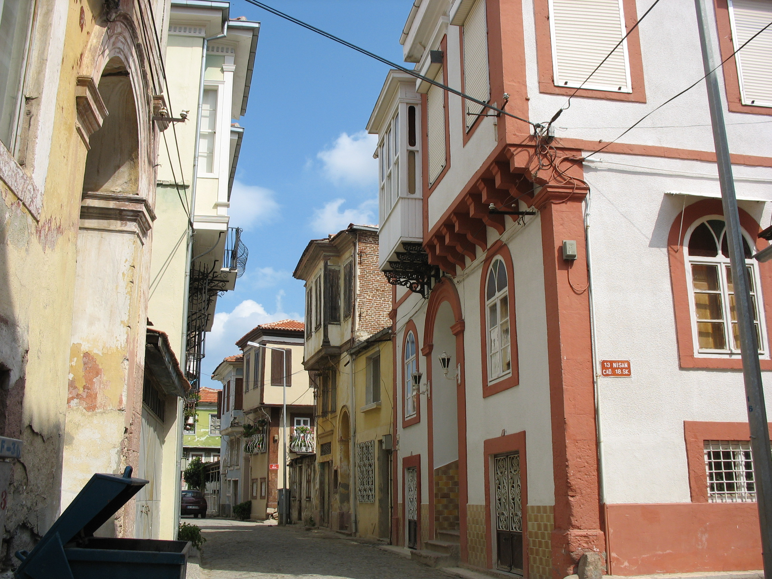 street in ayvalik